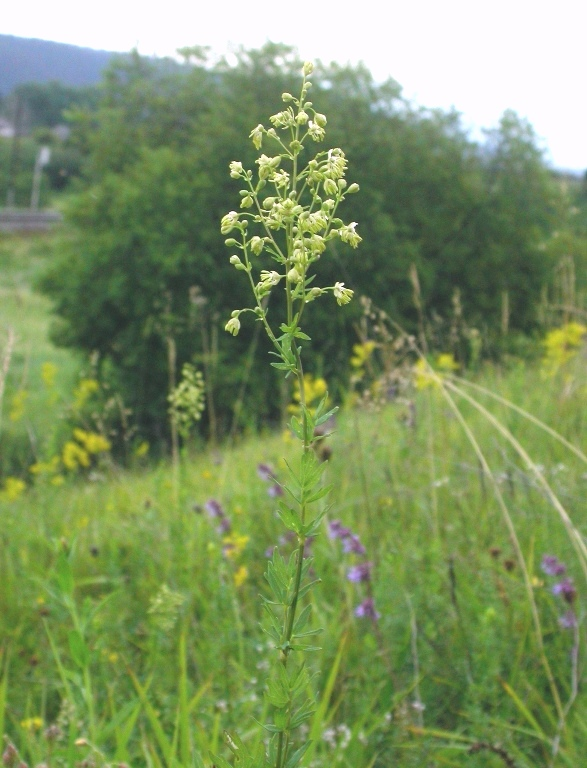 Flowering Thalictrum simplex in Bešeňová, Slovakia